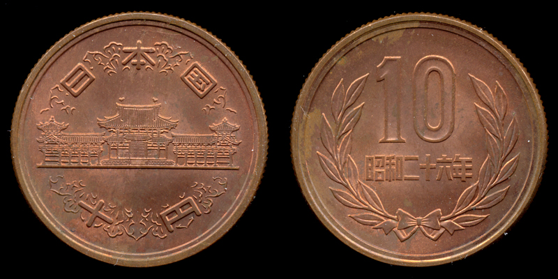 10yen-S26(current coin)